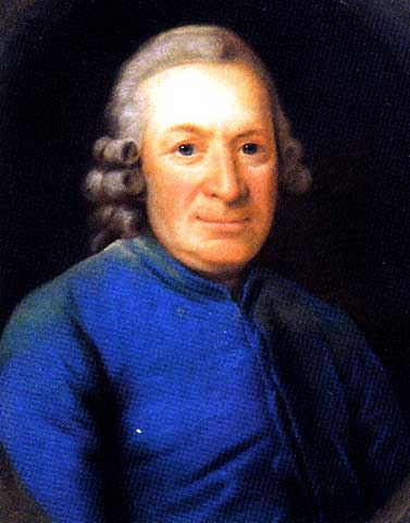 Portrait of Daniel Itzig (1723-1799), German banker